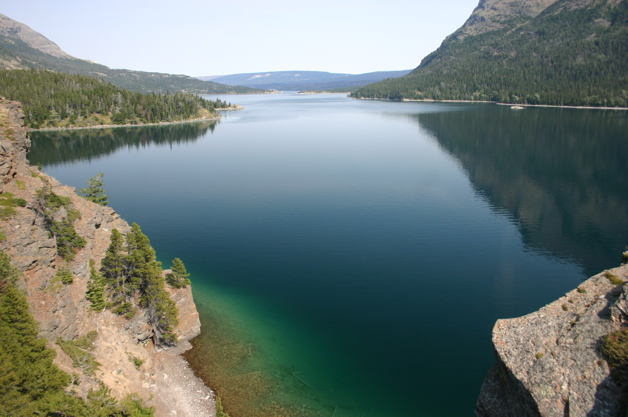 St. Mary Lake is blue, deep and clear